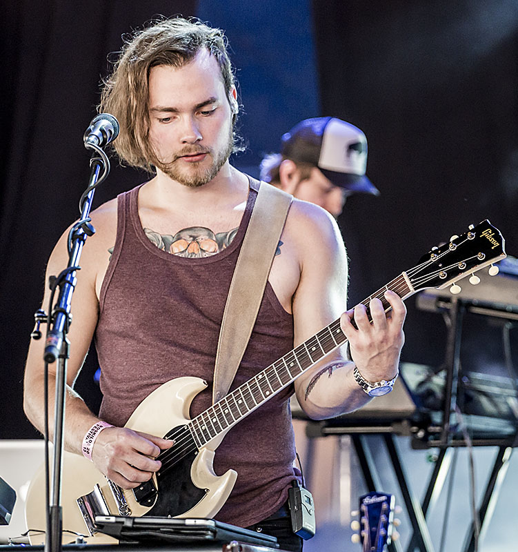 Ásgeir Trausti playing at Roskilde Festival on July 6, 2013